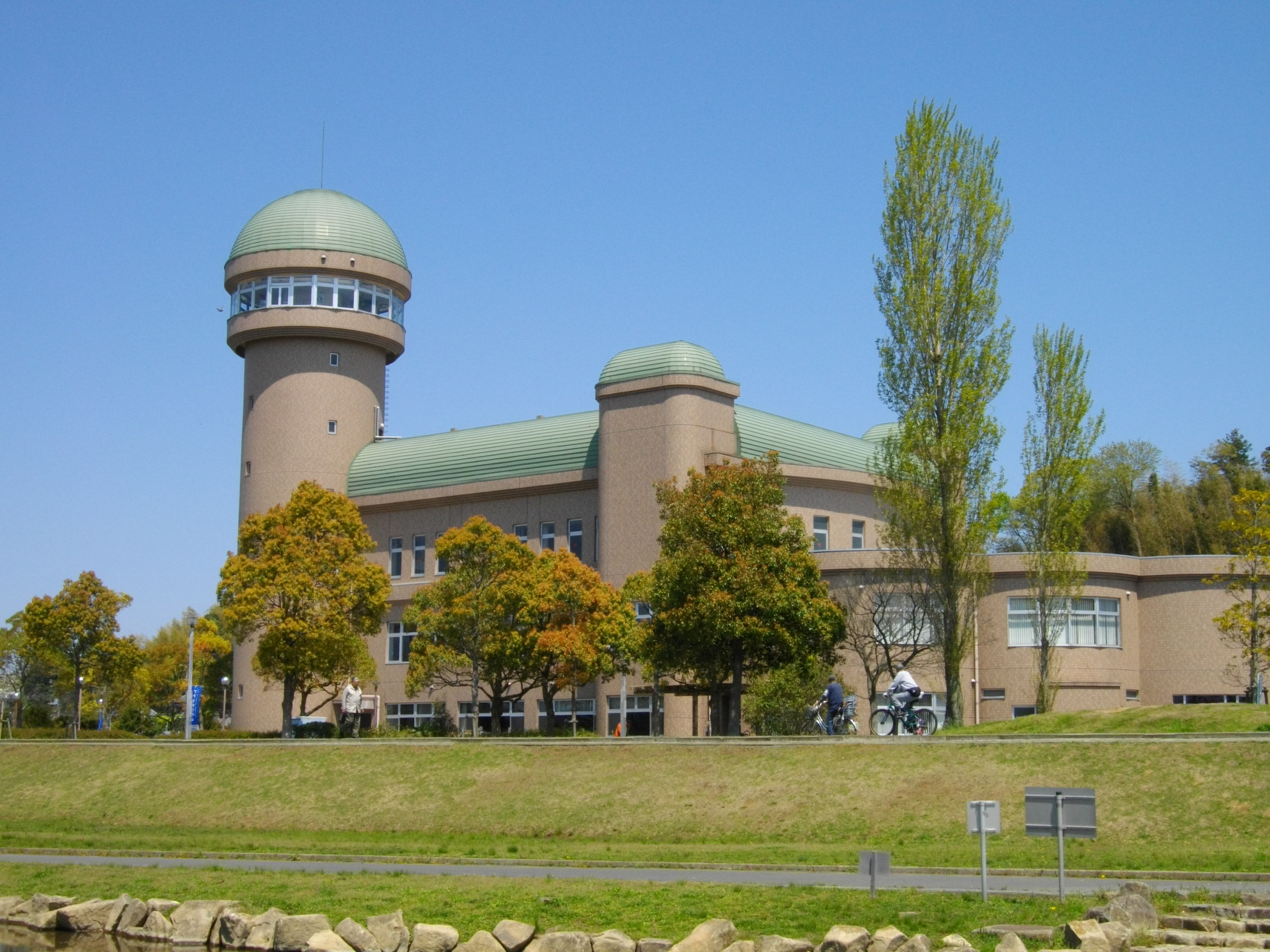 Teganuma Aquatic Park Mizunoyakata